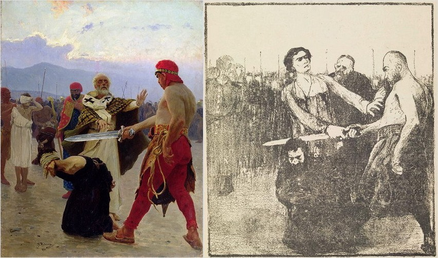 A collage of two images.